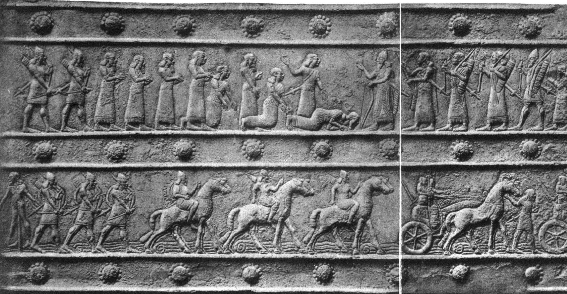 Part of the bronze gates of Shalmaneser III from his palace at Balawat.